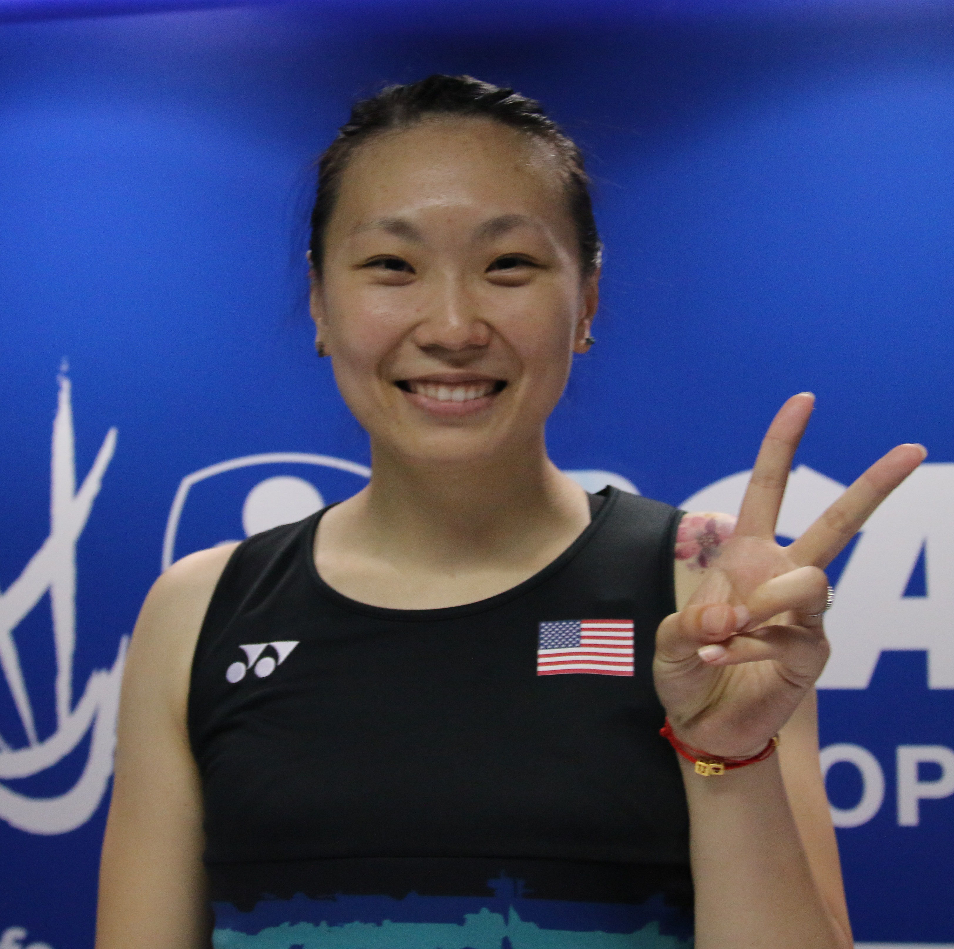 Zhang Beiwen at Indonesia Open 2017 post-match press conference